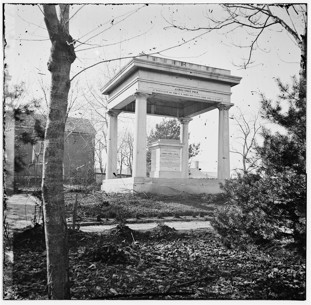 Nashville, Tenn. Tomb of President James K. Polk in its original location on the grounds of his home, “Polk Place”